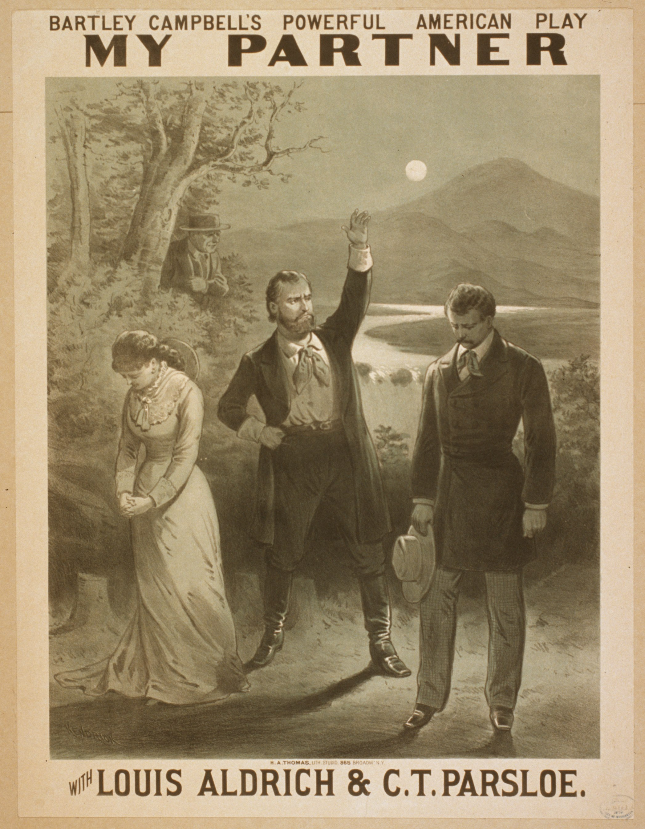 Title: Bartley Campbell's powerful American play, My partner with Louis Aldrich & C.T. Parsloe Abstract/medium: 1 print : color lithograph ; sheet 69 x 52 cm. (poster format)